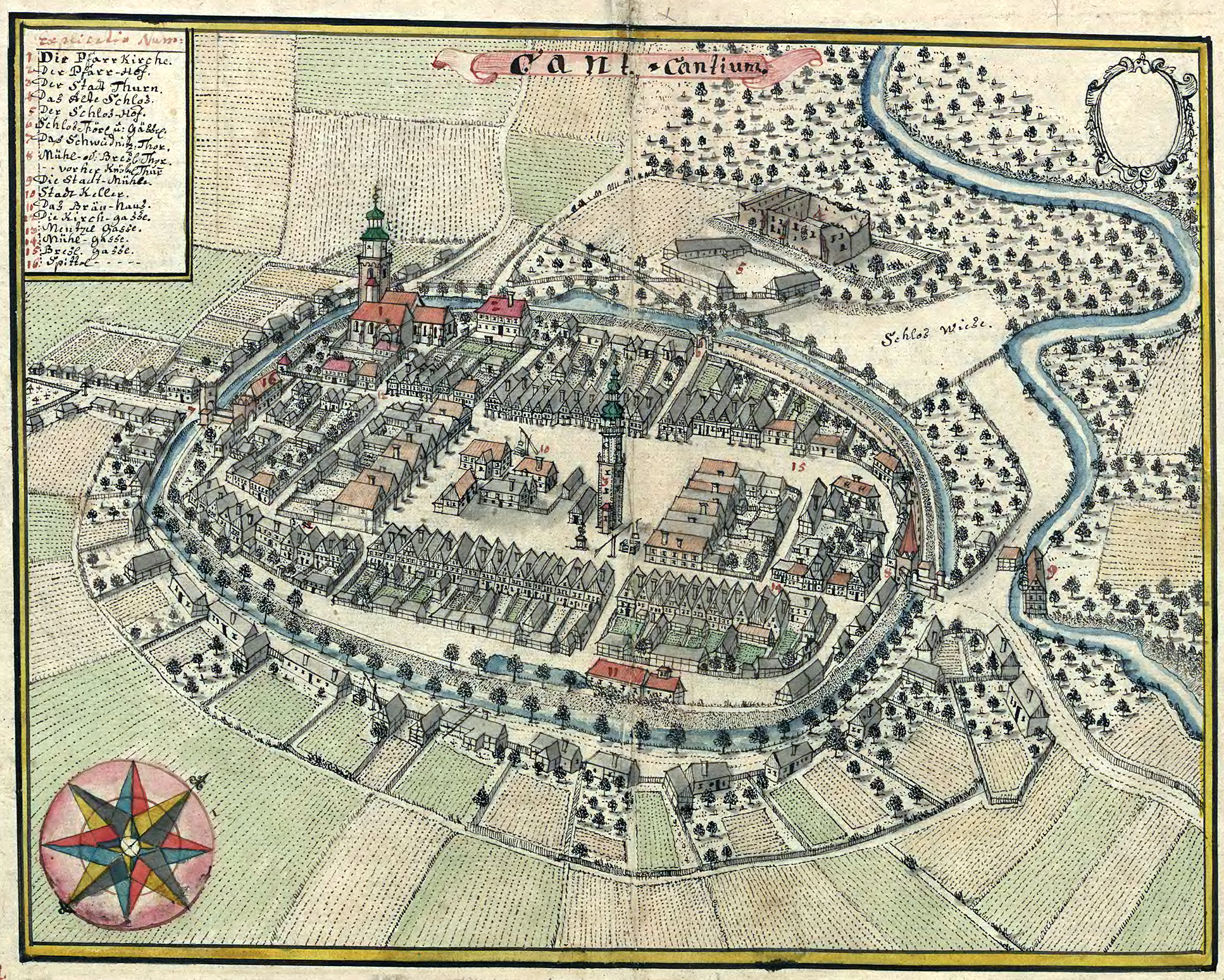 The city of Kąty Wrocławskie.